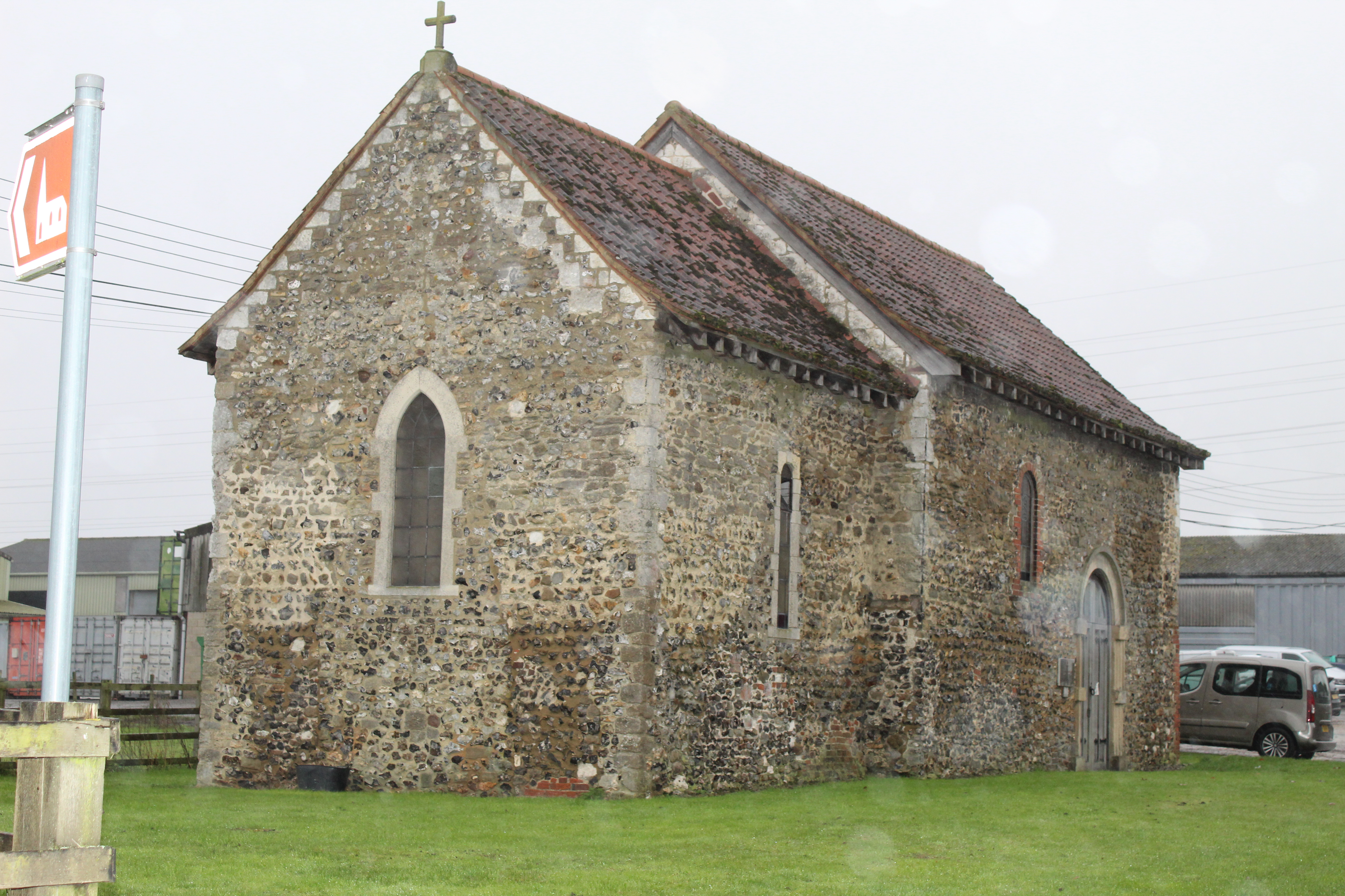 An early 12C pilgrim church, abandoned in 1678, restored 20C and now redundant.